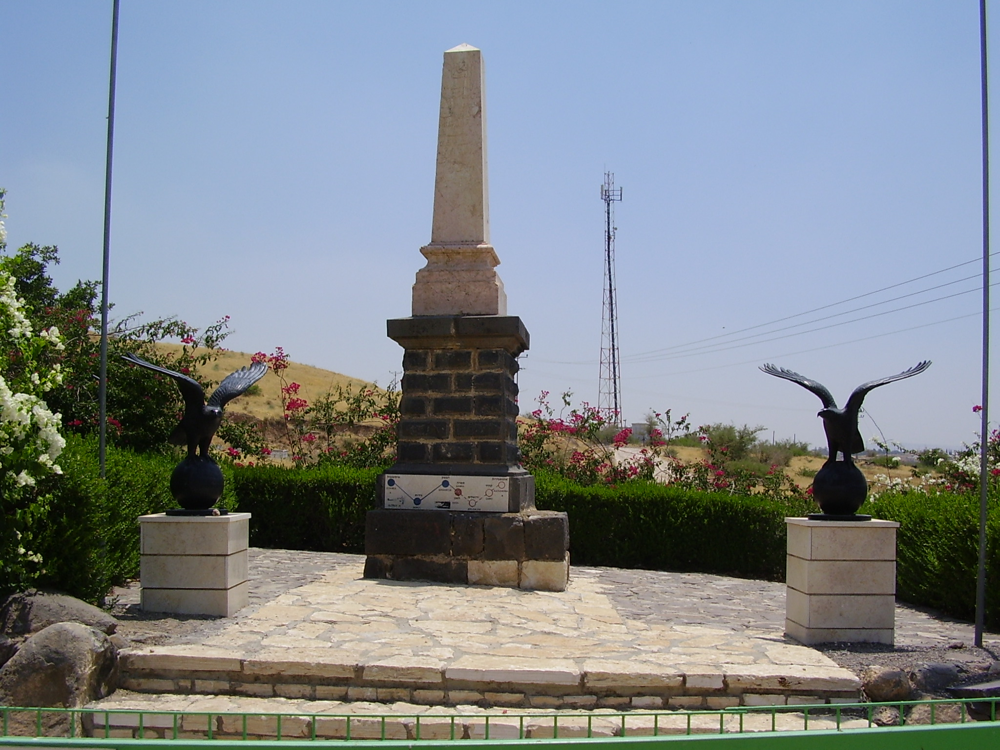 turkish pilots memorial near kibbutz ha\'on